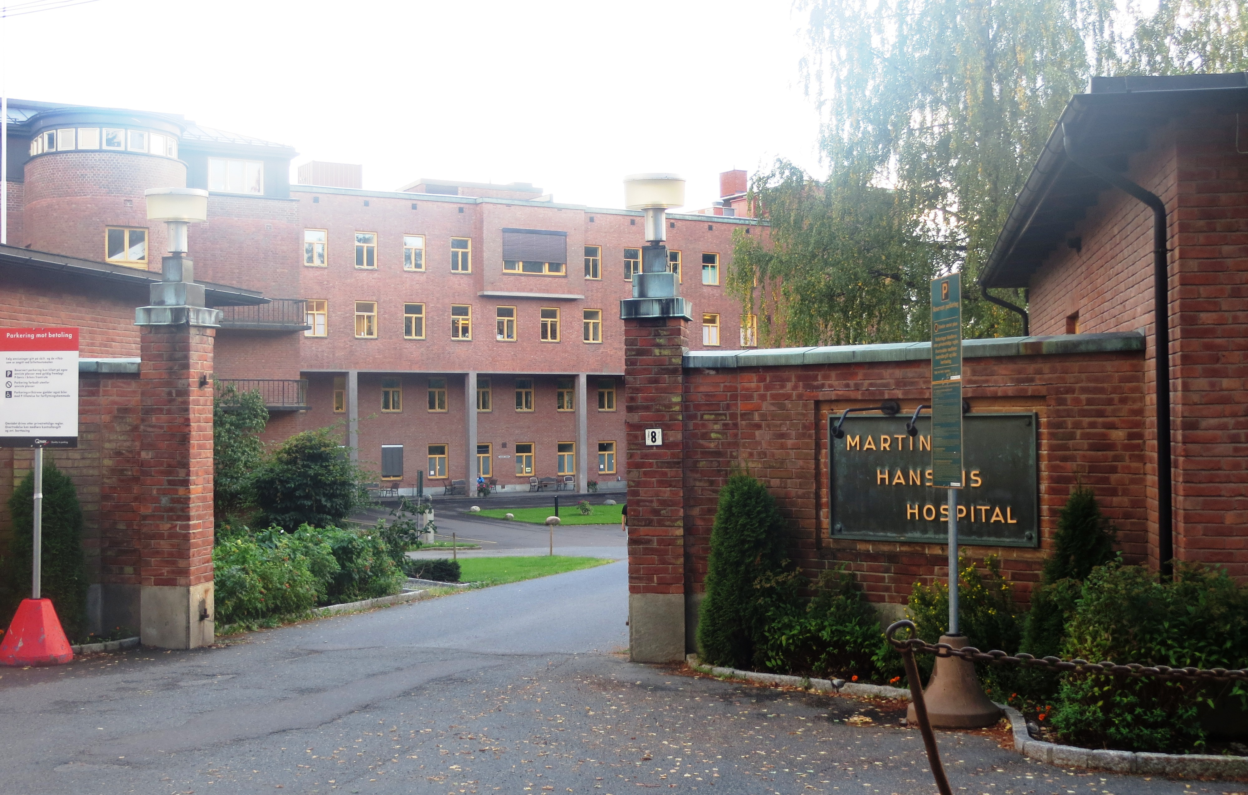 Old, historically important hospital / clinic at the Dønski area in Bærum municipality, Akershus (Norway)